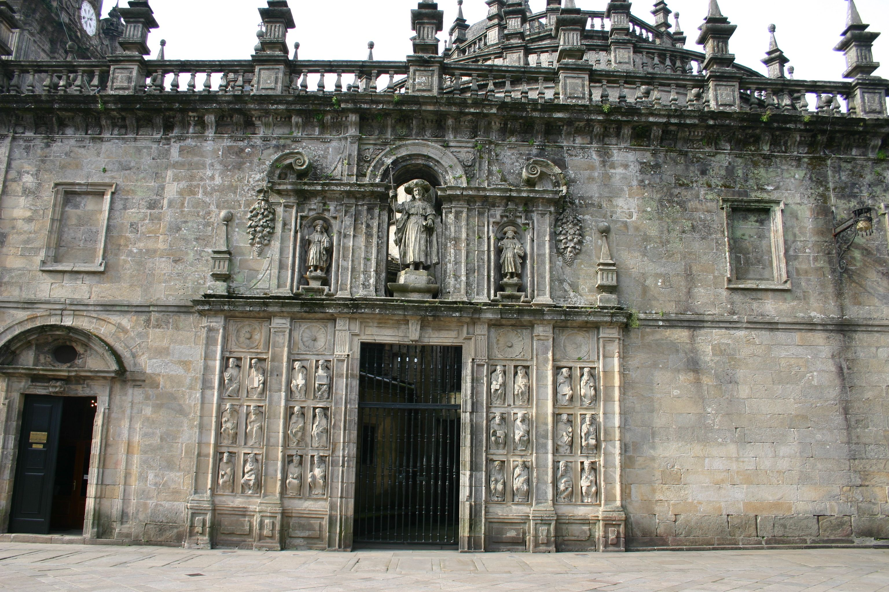 Little portico on the Cathedral of Santiago de Compostela, Galicia (Spain). Author: User:Yearofthedragon